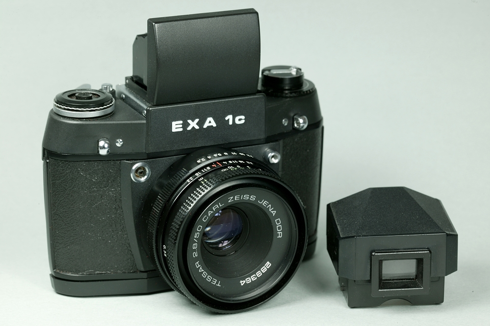 This image shows an EXA 1c 135 film single lens reflex camera manufactured 1986 under VEB Pentacon Dresden.